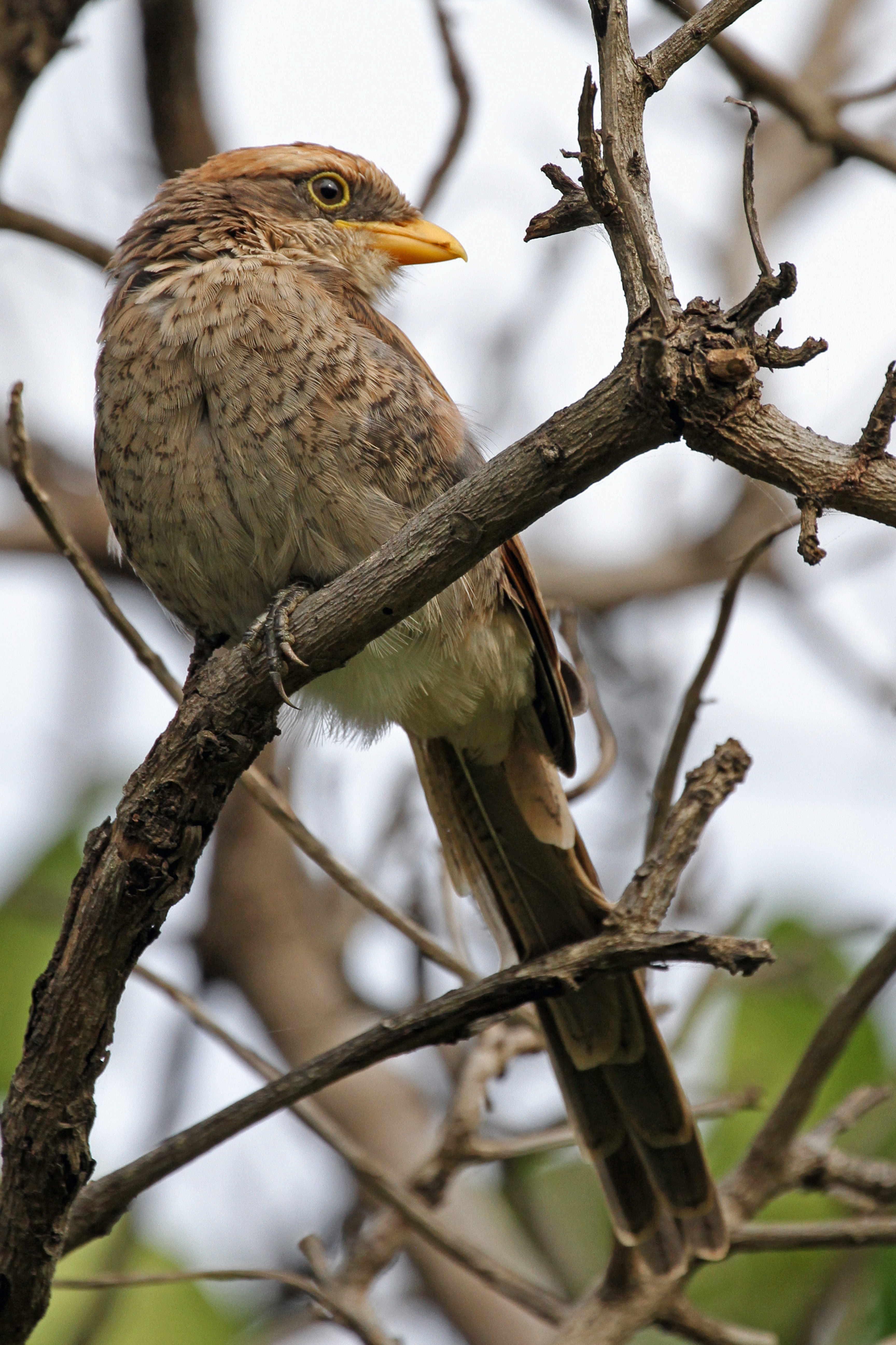 Yellow-billed Shrike